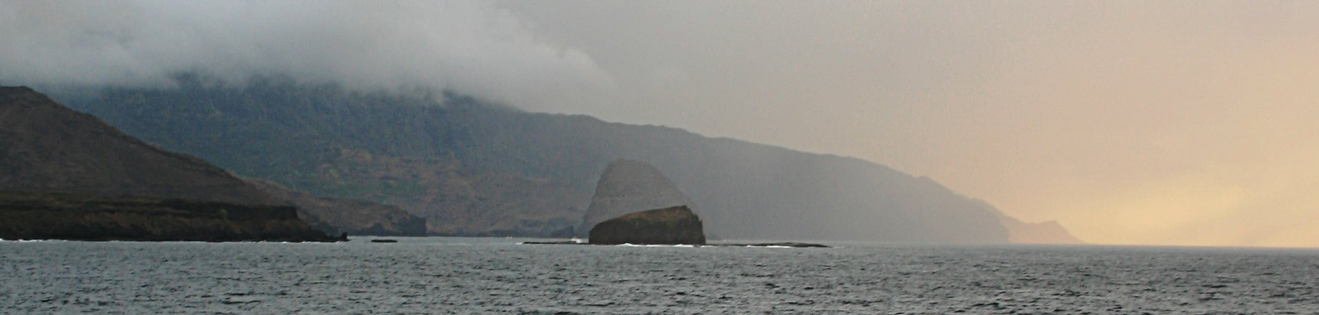 Southern coast of the island of Ua Huka, Marquesas Islands, French Polynesia, in early morning. At the center of photography, the motu Papa, off the airport, and behind it the motu Hane, off the villages of Hane and Hokatu.